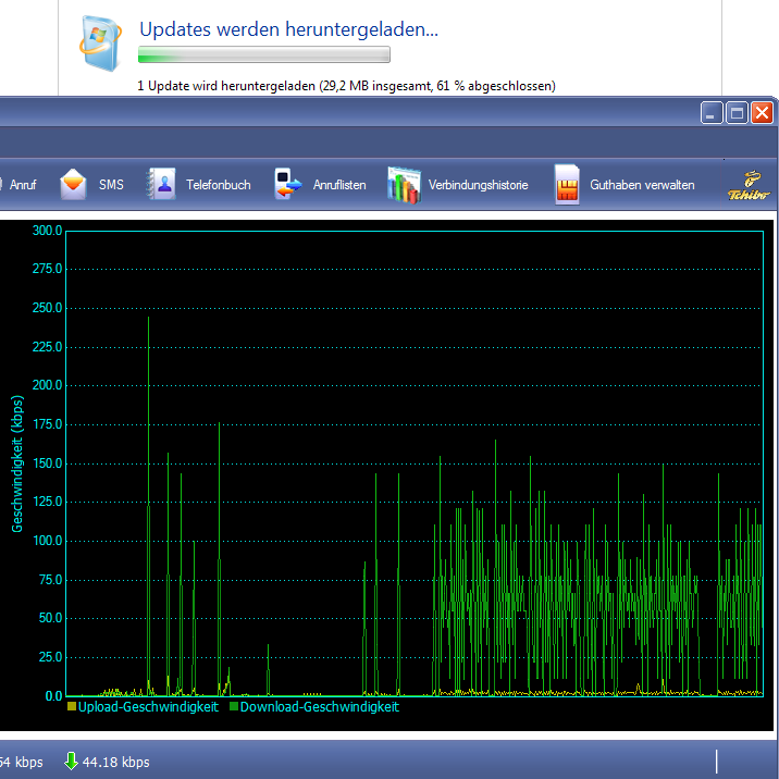 Reduced mobile broadband bandwidth "like GPRS" flat rate experience over o2-DE.